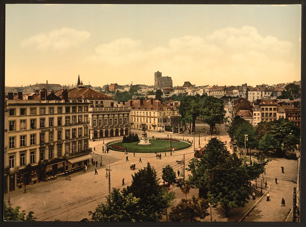 [Theatre Place, Liège, Belgium] [between ca. 1890 and ca. 1900]. 1 photomechanical print : photochrom, color. Notes: Title from the Detroit Publishing Co., catalogue J, foreign section. Detroit, Mich. : Detroit Publishing Company, c1905. Print no. "8628". Forms part of: Views of architecture and other sites in Belgium in the Photochrom print collection. Format: Photochrom prints--Color--1890-1900. Rights Info: No known restrictions on reproduction. Repository: Library of Congress, Prints and Photographs Division, Washington, D.C. 20540 USA Part Of: Views of architecture and other sites in Belgium (DLC) 2001696375 Persistent URL: Call Number: LOT 13422, no. 075 [item]